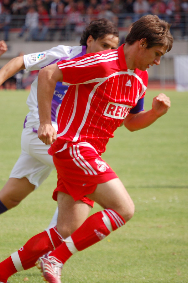 Patrick Helmes during a pre-season match